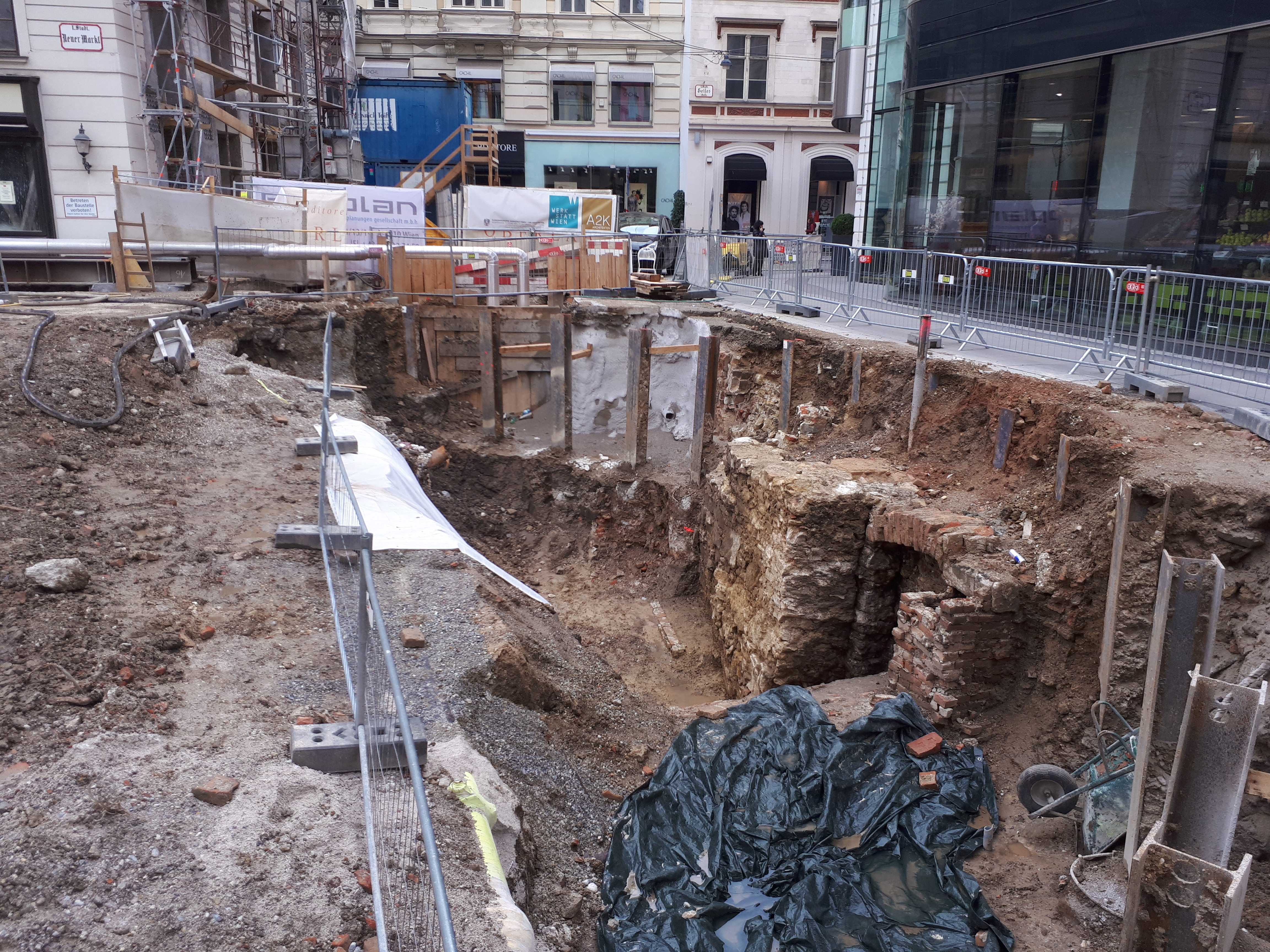 Archaeological excavations on the Neuer Markt square in Vienna, Austria